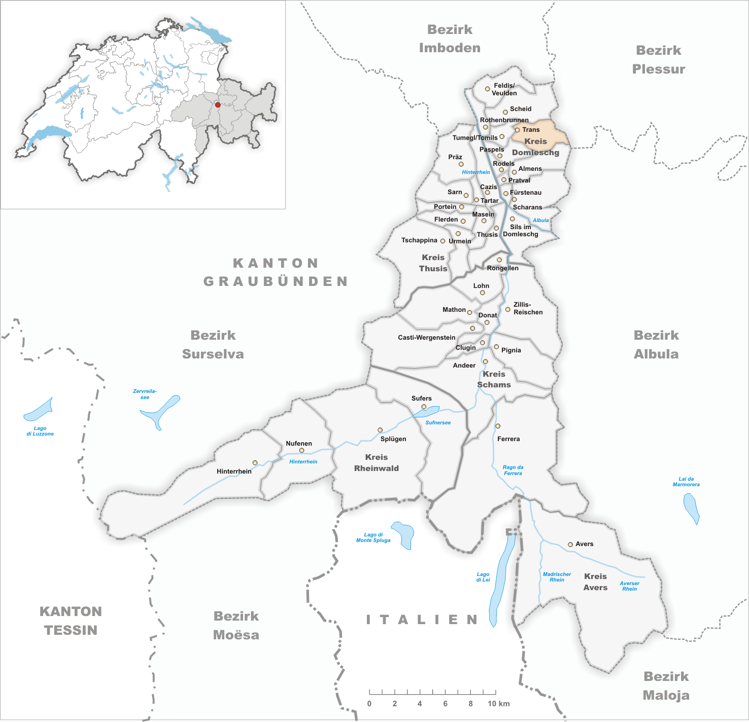 Municipality Trans